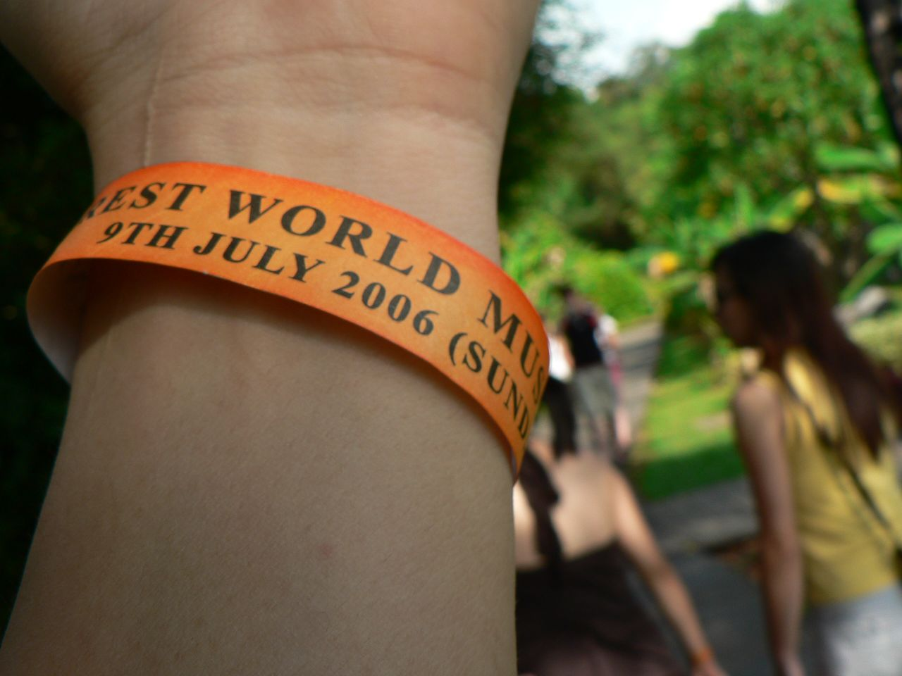 Every visitor should wear a wrist band before attending Rainforest World Music Festival (RWMF) 2006.